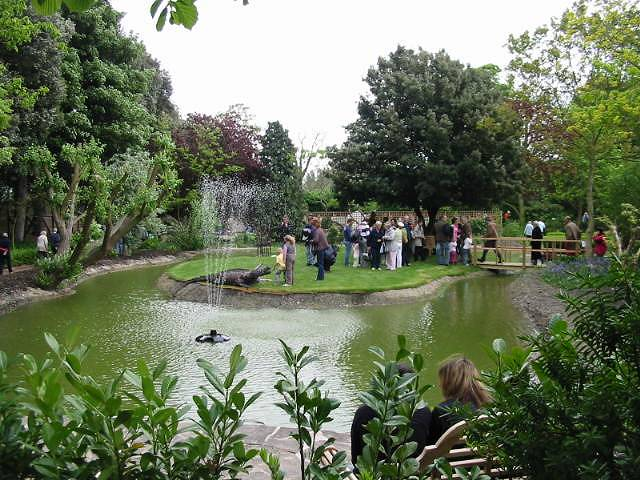 "Lake Patricia" in the gardens of The Salutation Designed and built in 1912 by Edwin Lutyens, and planting originally laid out by Gertrude Jekyll.